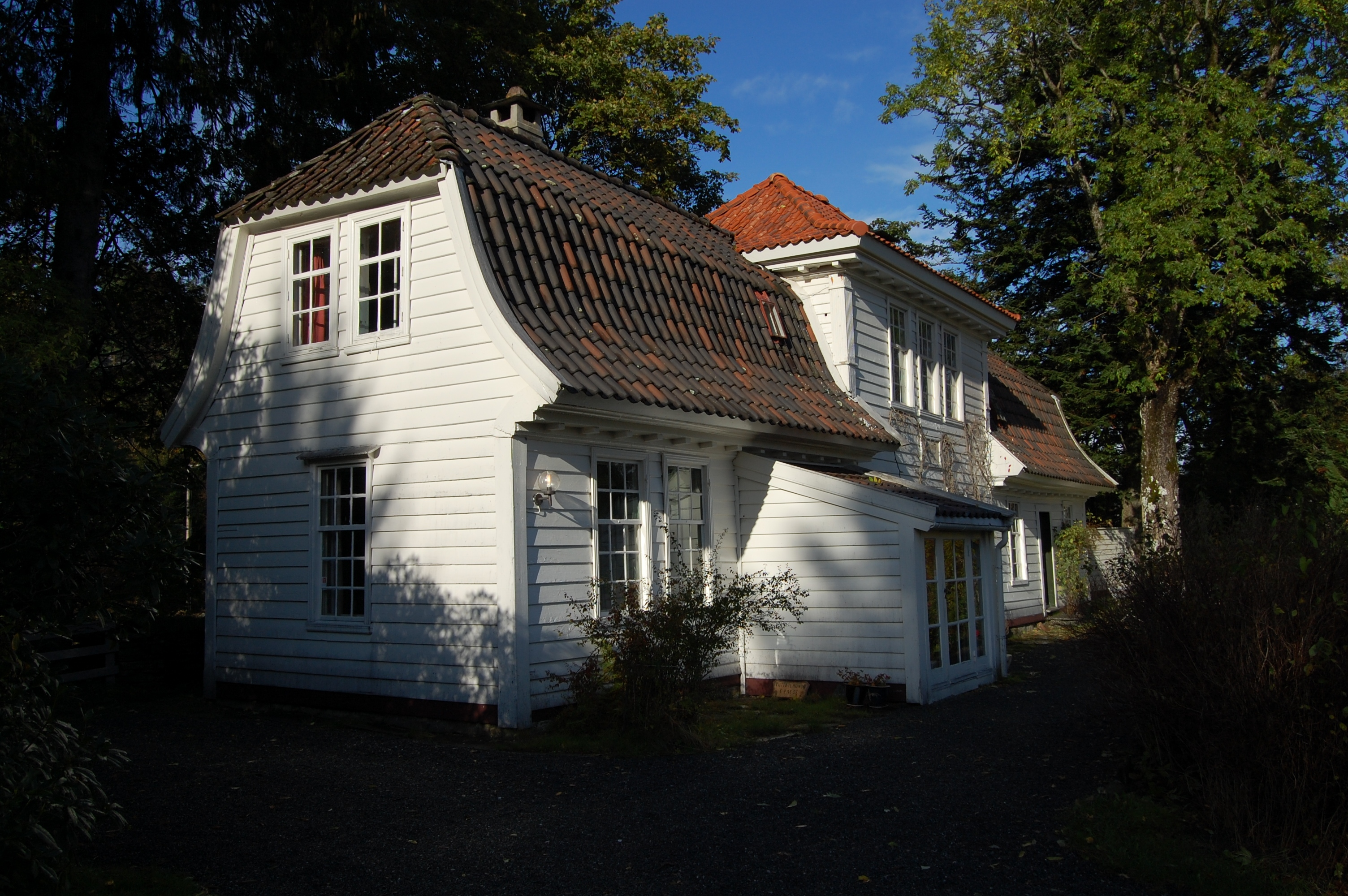 Building in Bergen